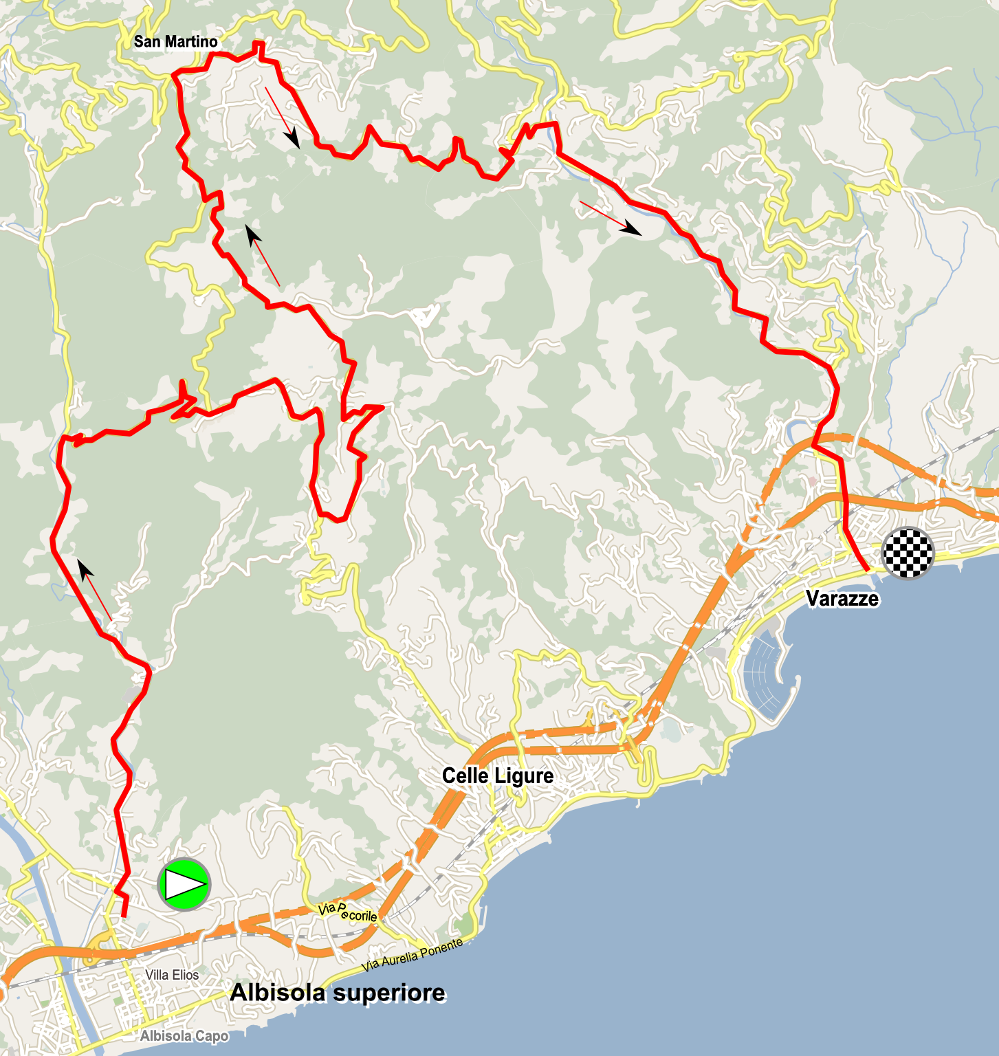 Map of the stage 7 of the Giro rosa 2016.